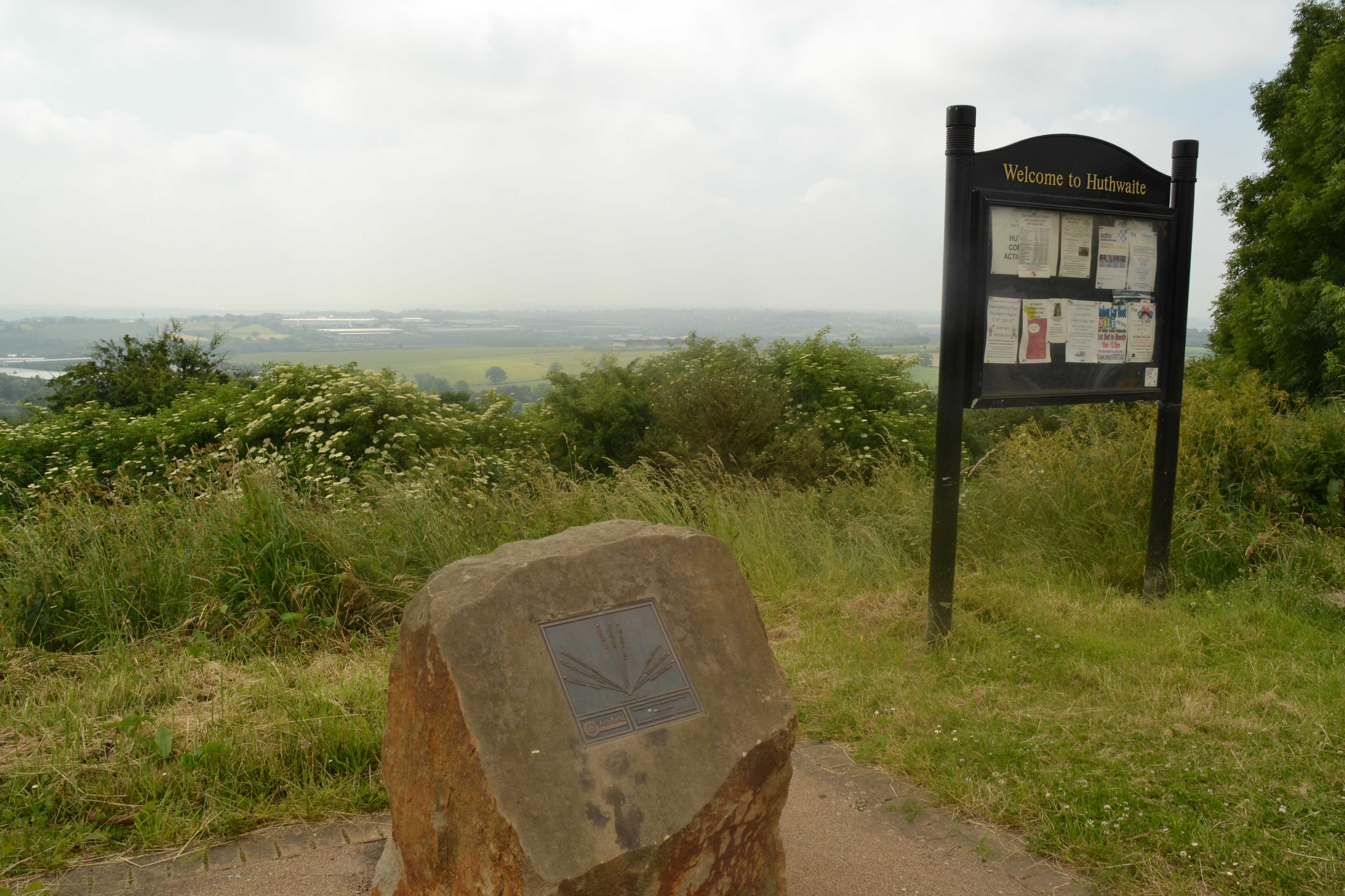 Strawberry Bank -The plaque claims this to be the highest natural point in Nottinghamshire, at 201 metres or 660 feet above sea level